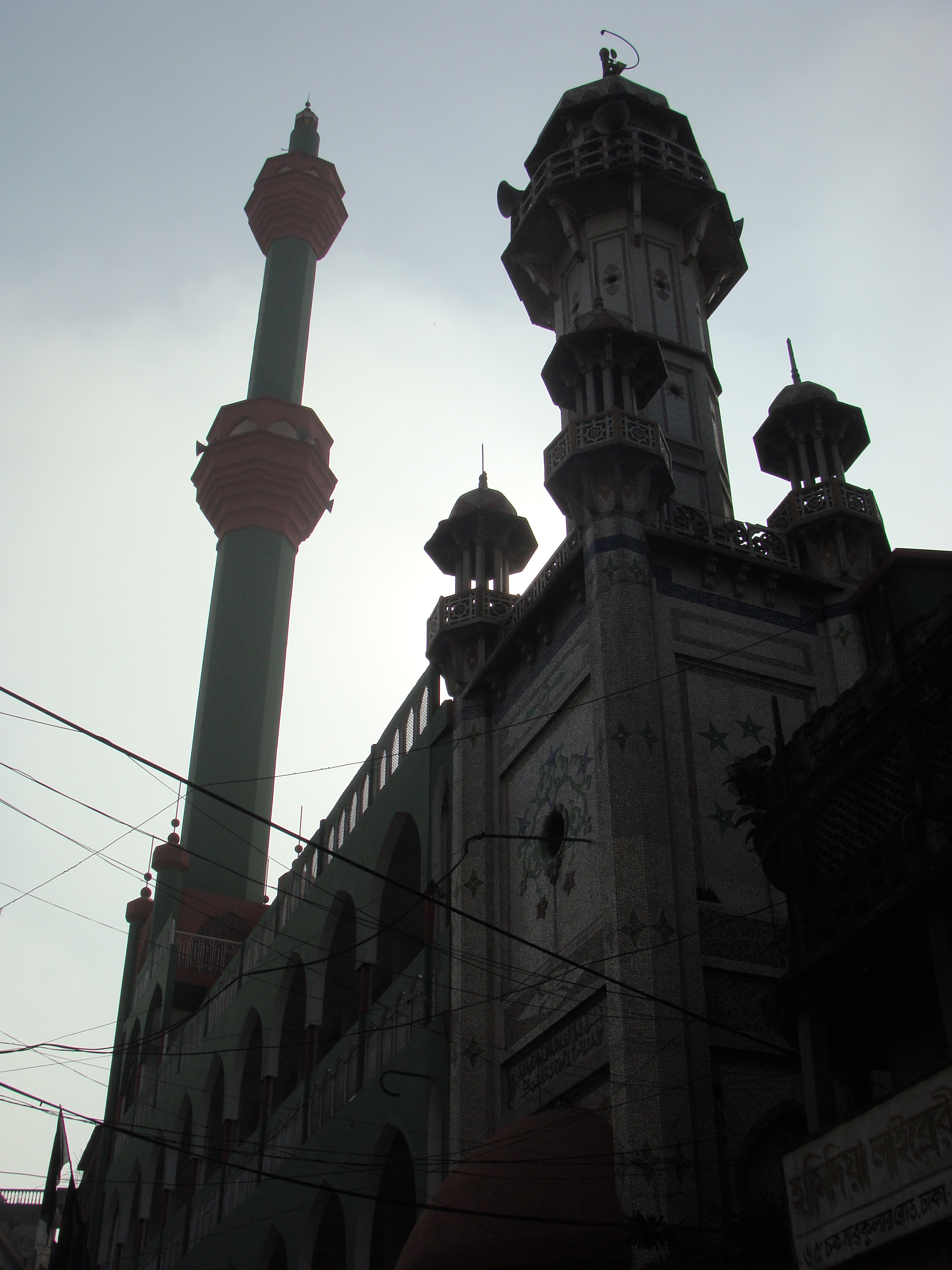 Chawkbazar Shahi Mosque